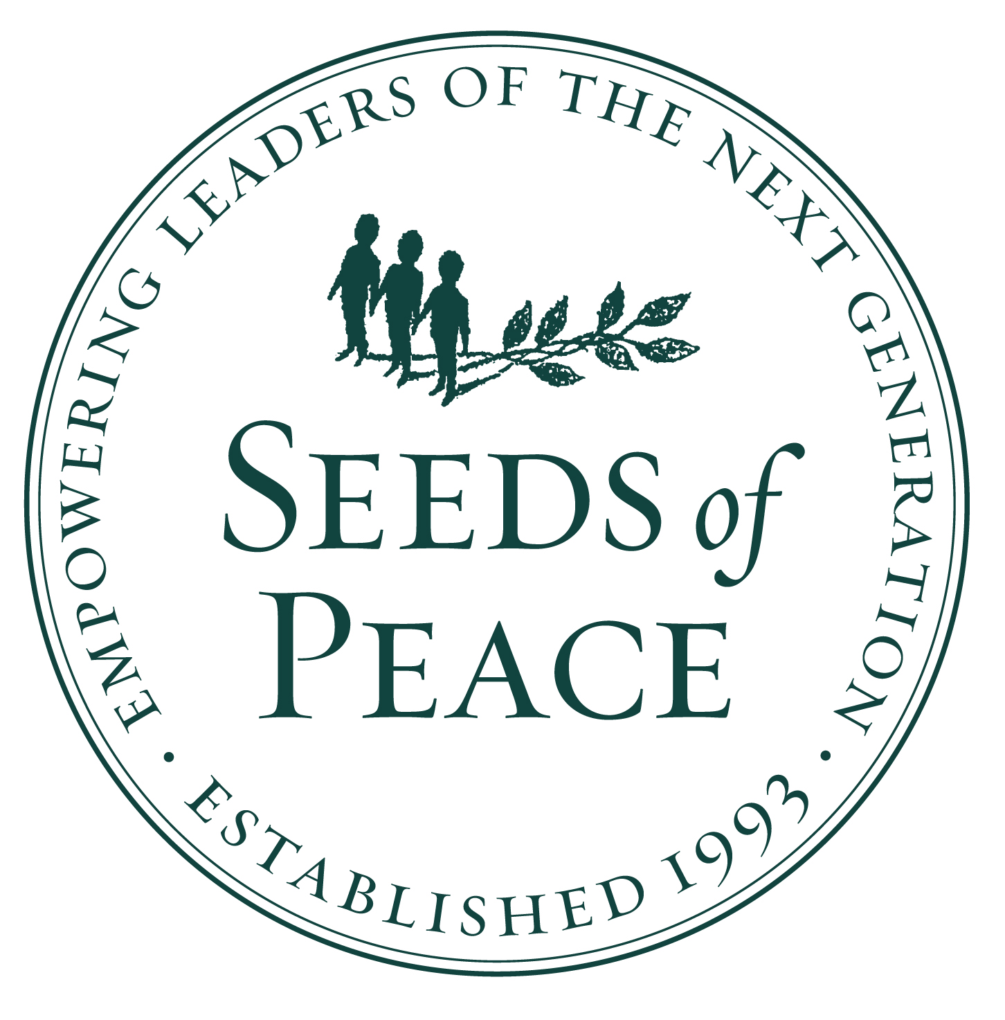 Seeds of Peace Seal